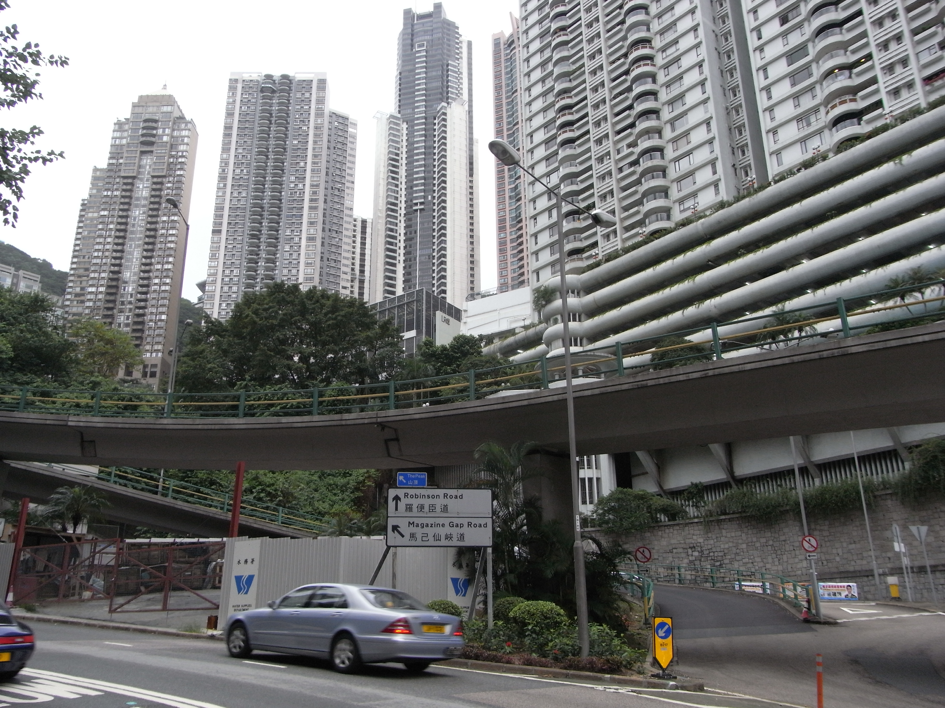 香港島中環zh:半山區花園道